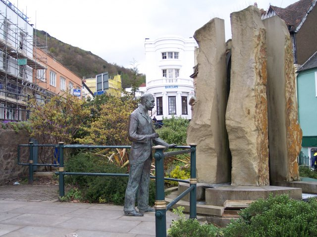 Sir Edward Elgar and the Enigma Fountain. Sculptured by Rose Garrard and unveiled by HRH Prince Andrew.